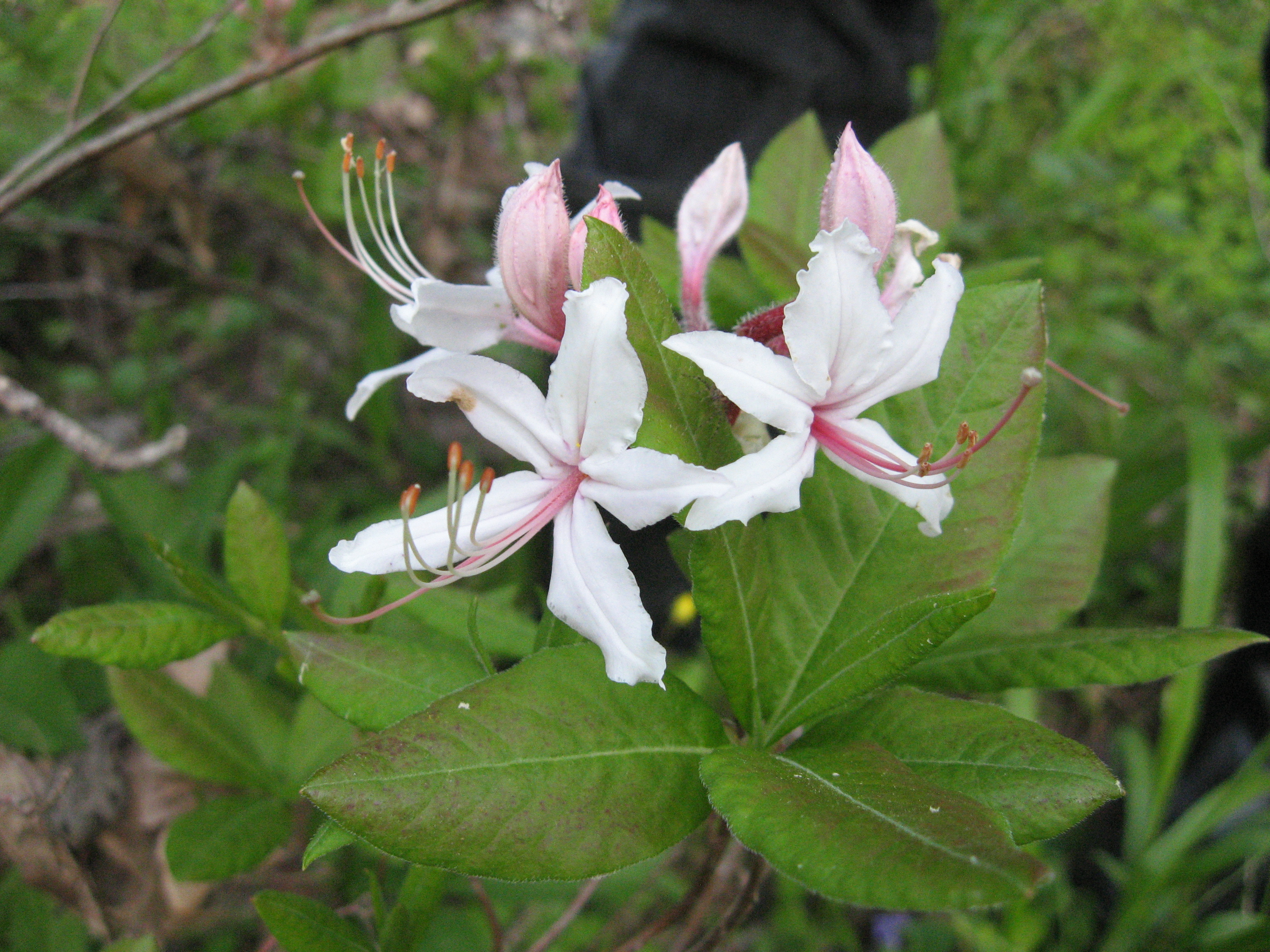 Rhododendron periclymenoides, near Sturgeon Creek, Owsley County, Kentucky.